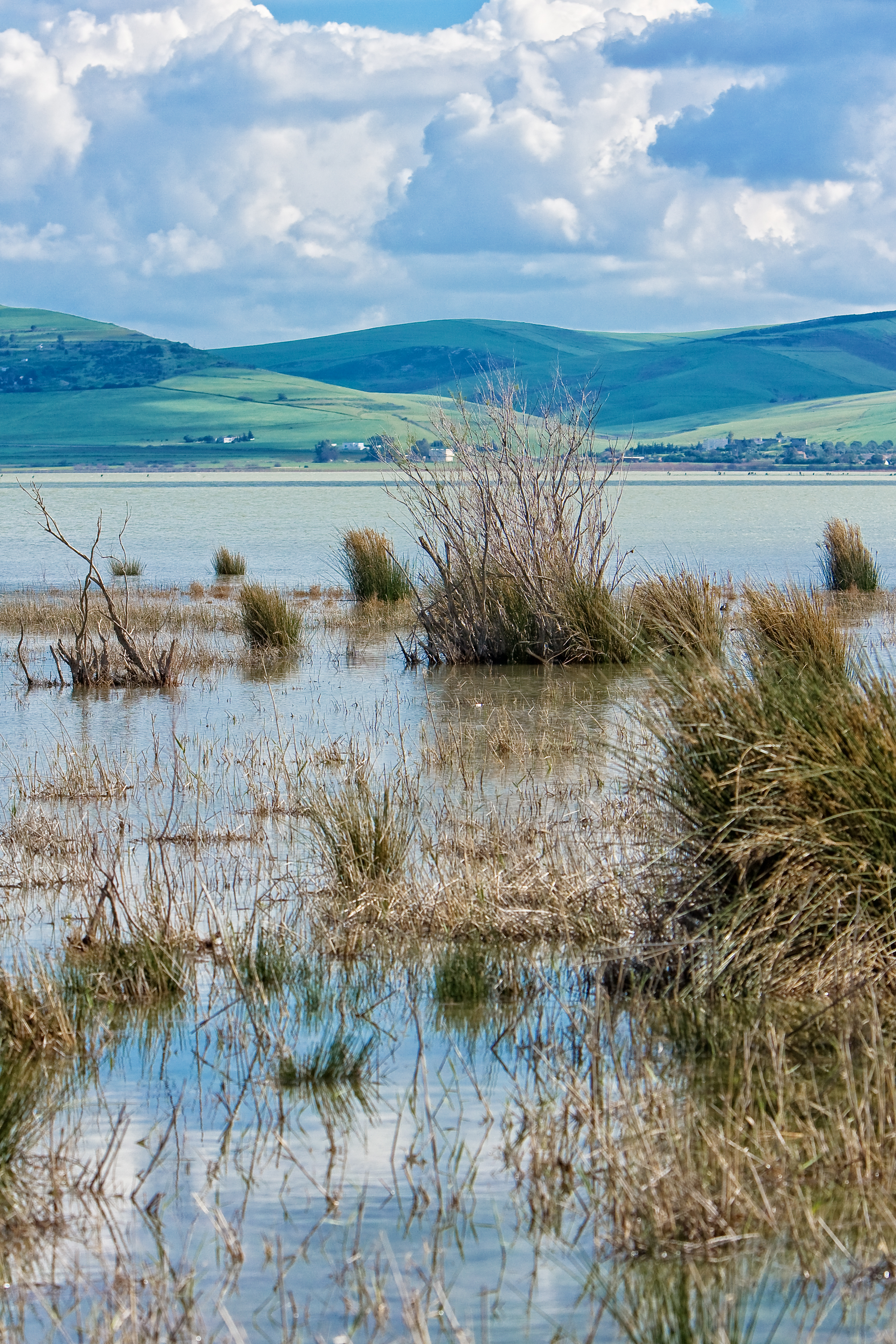 Ichkeul National Park